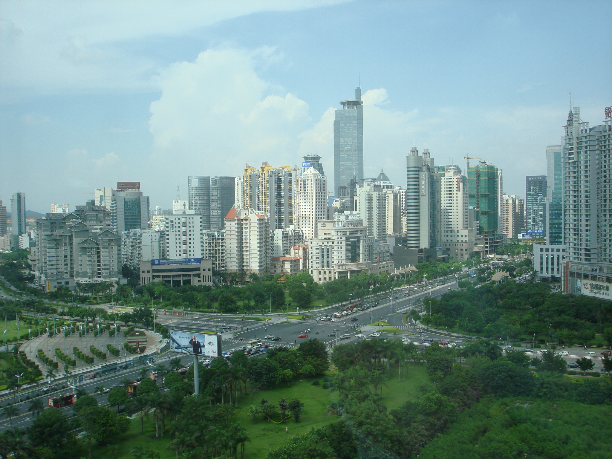 Nanning in 2008